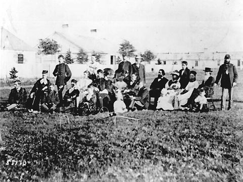 Trading during the Fur Trade Era between mountain men, Native Americans, fur trappers and traders at Fort Bridger, Wyoming